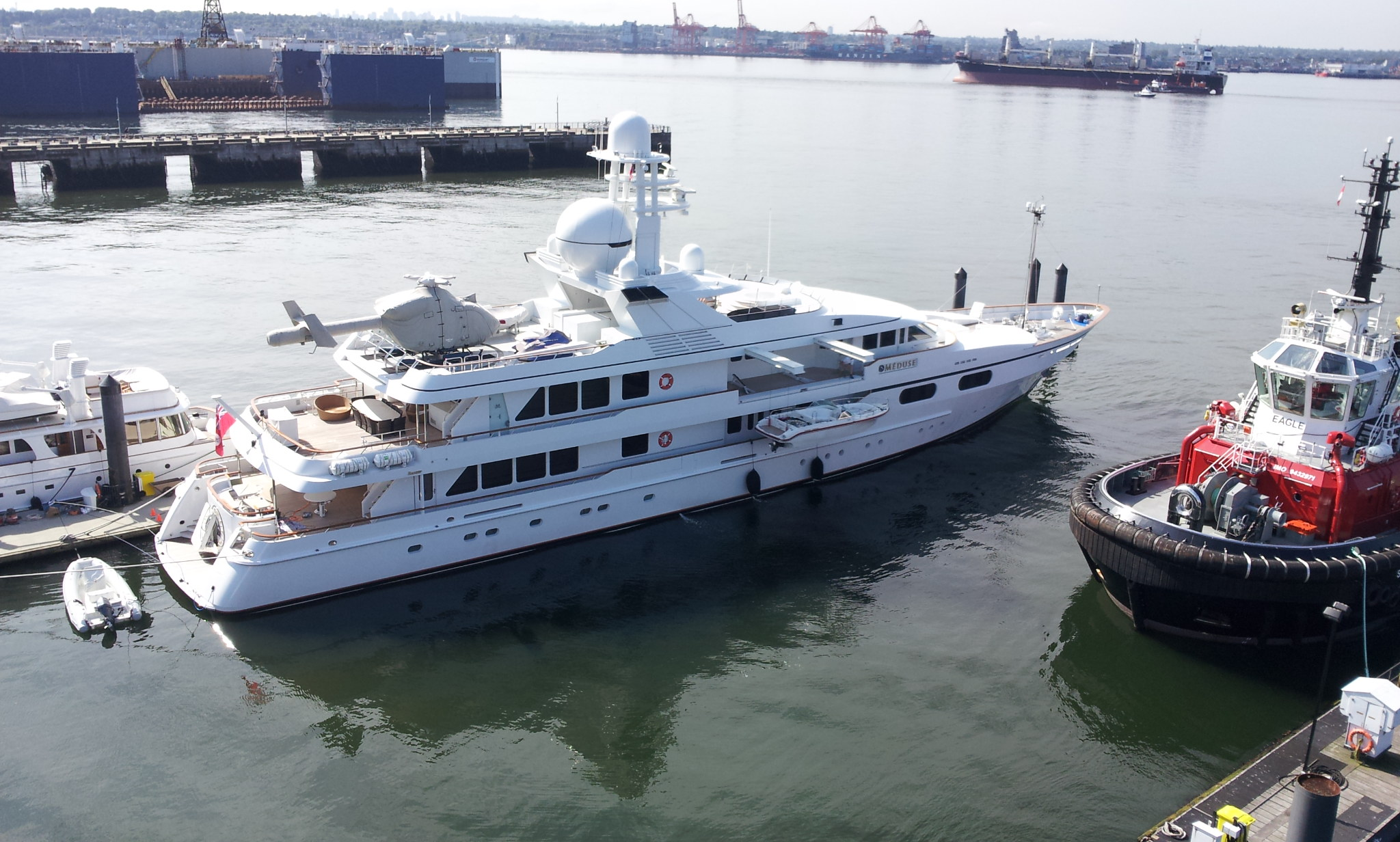 Yacht Méduse - Tug Seaspan Eagle (IMO: 9432971, MMSI: 316020871) on right